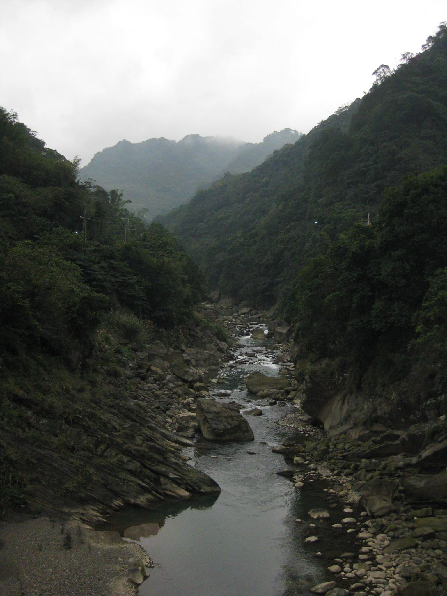 Dabao River from the Couhe Bridge in Sansia.